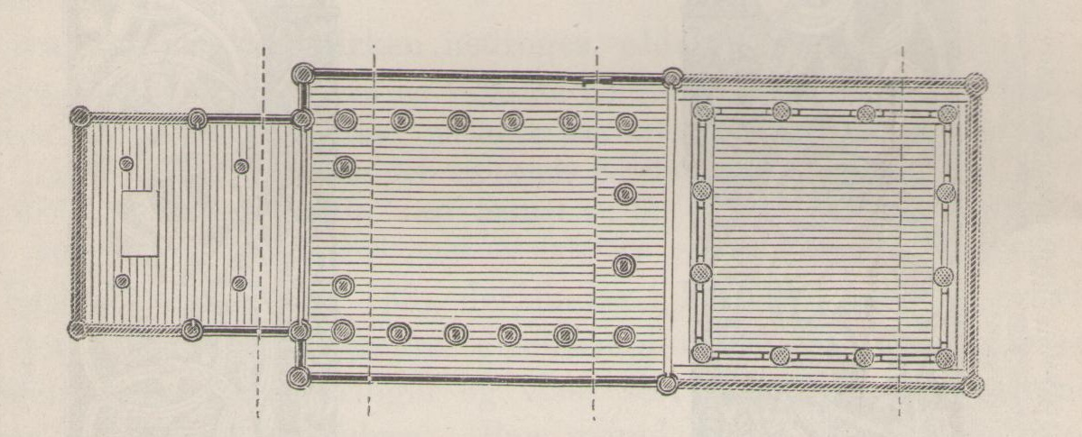 Print of floorplan of Årdal stave church